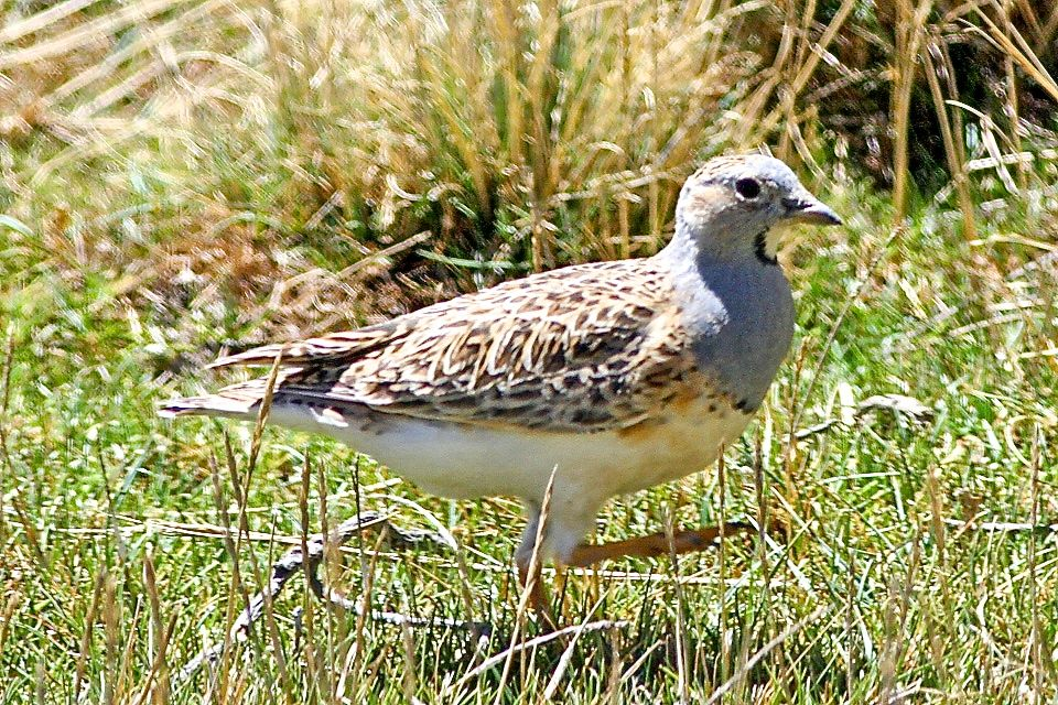 Grey-breasted Seedsnipe (Thinocorus orbignyianus), Uquia to Yavi, Salta, Argentina